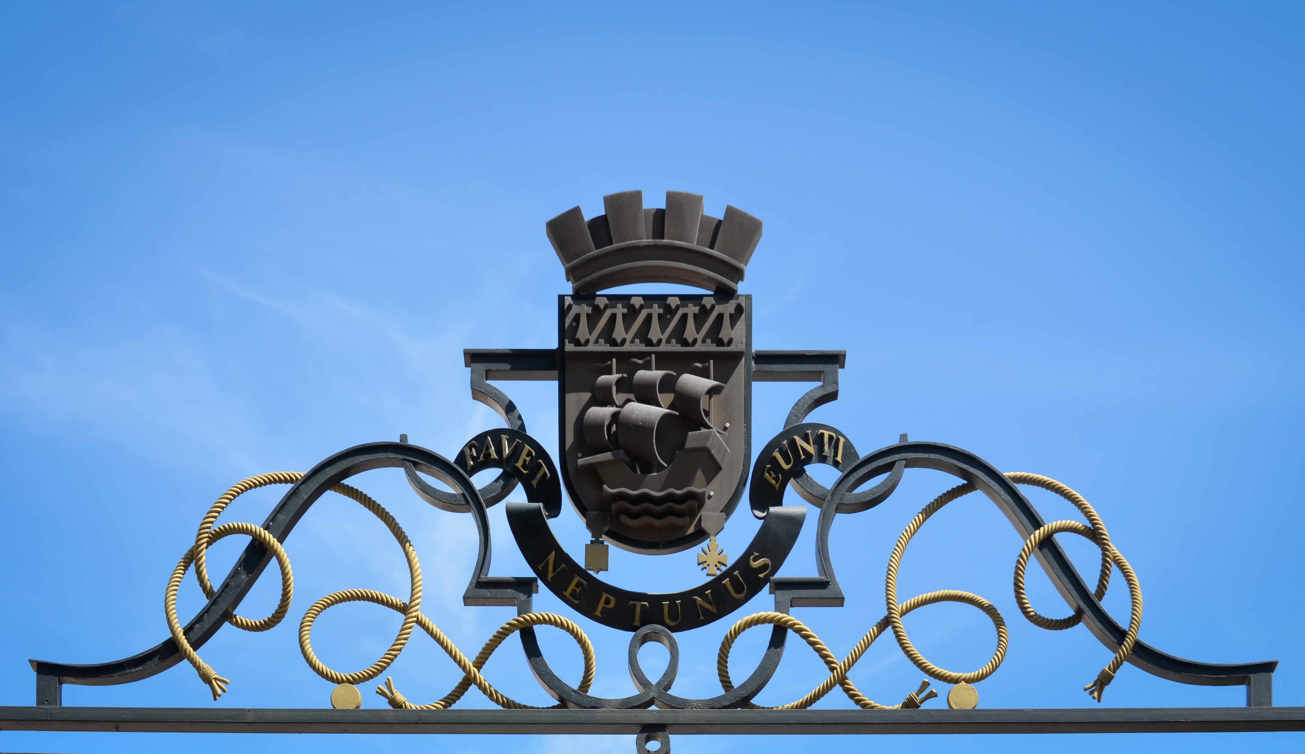 Wrought iron escutcheon of Nantes city hall with latin motto Favet Neptunus Eunti - France